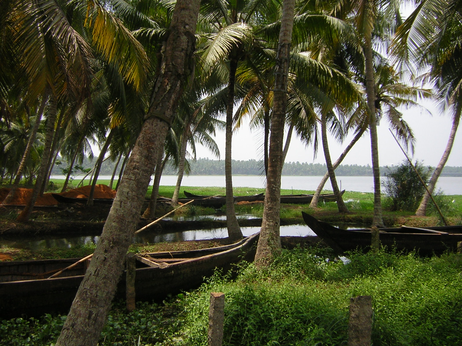 Akkulam, a tourist village in Thiruvananthapuram district of Kerala state, south India.